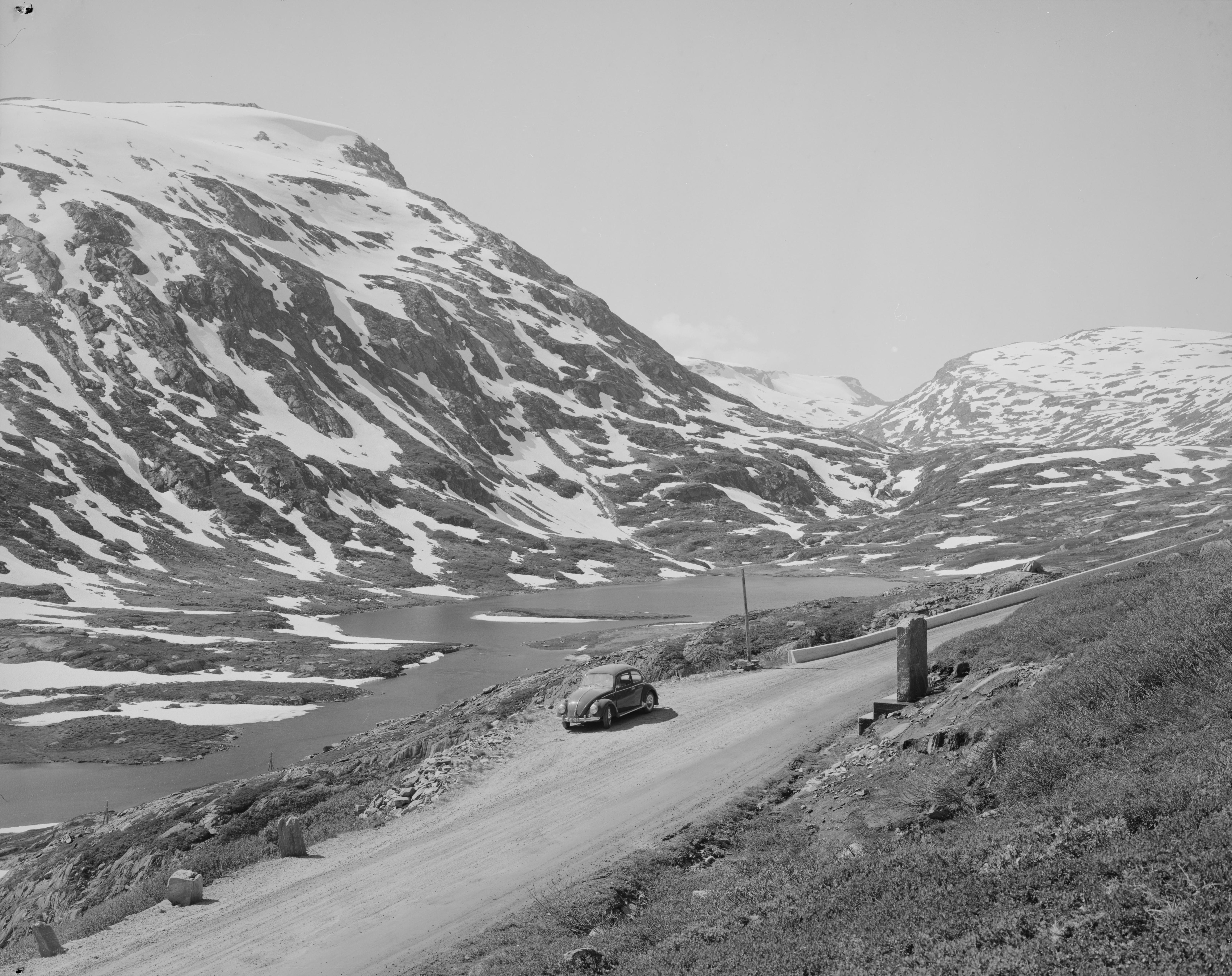 From the National Library photo collection. Photo shows part of the Geiranger road exactly at the county line between Geiranger and Grotli, road 63